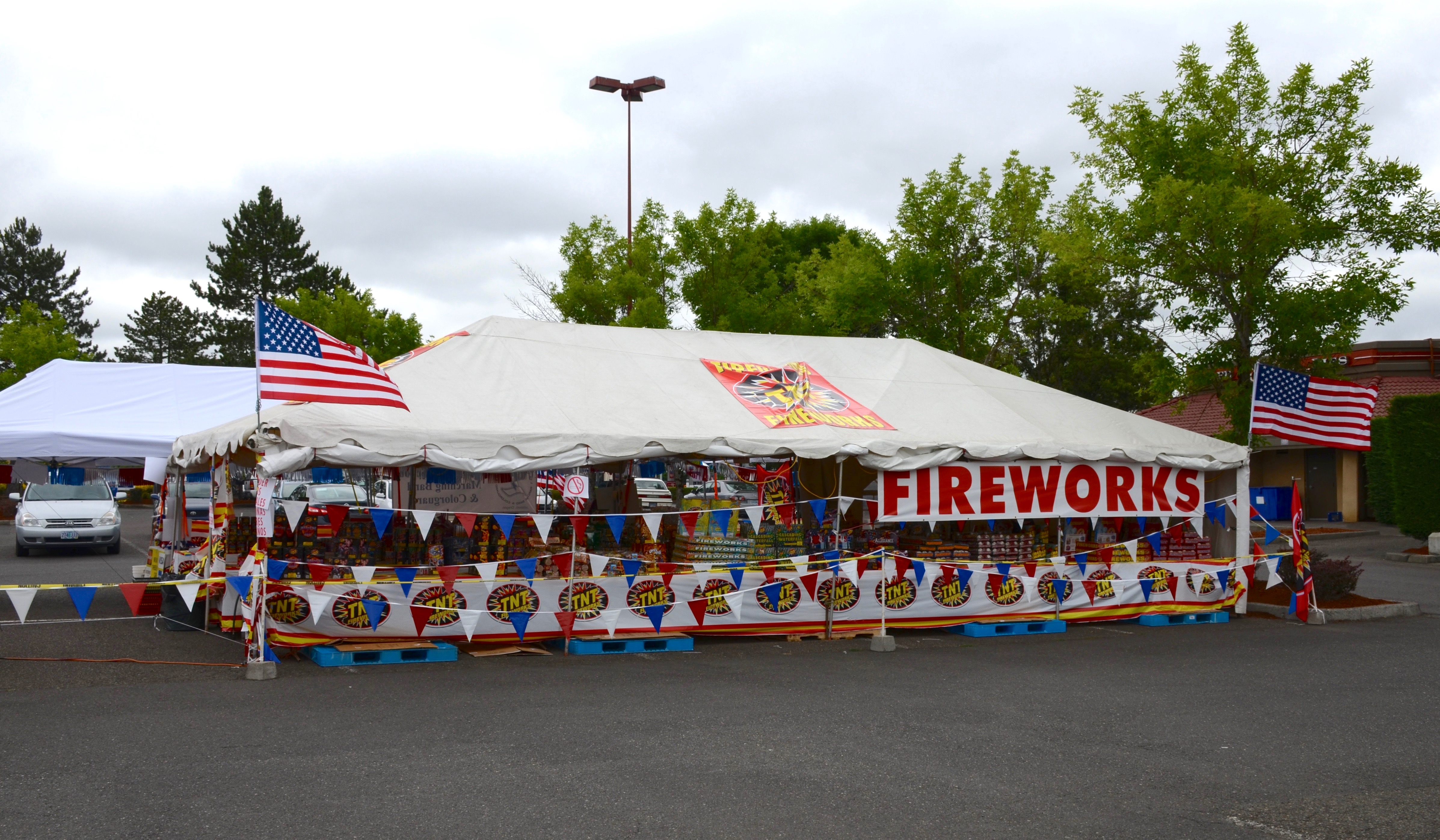 Fireworks stand in the Safeway parking lot at the Tanasbourne Village strip mall, in Hillsboro, Oregon